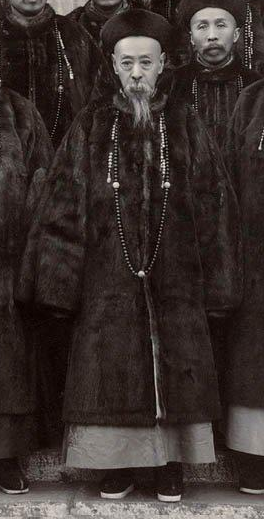 慶親王奕劻